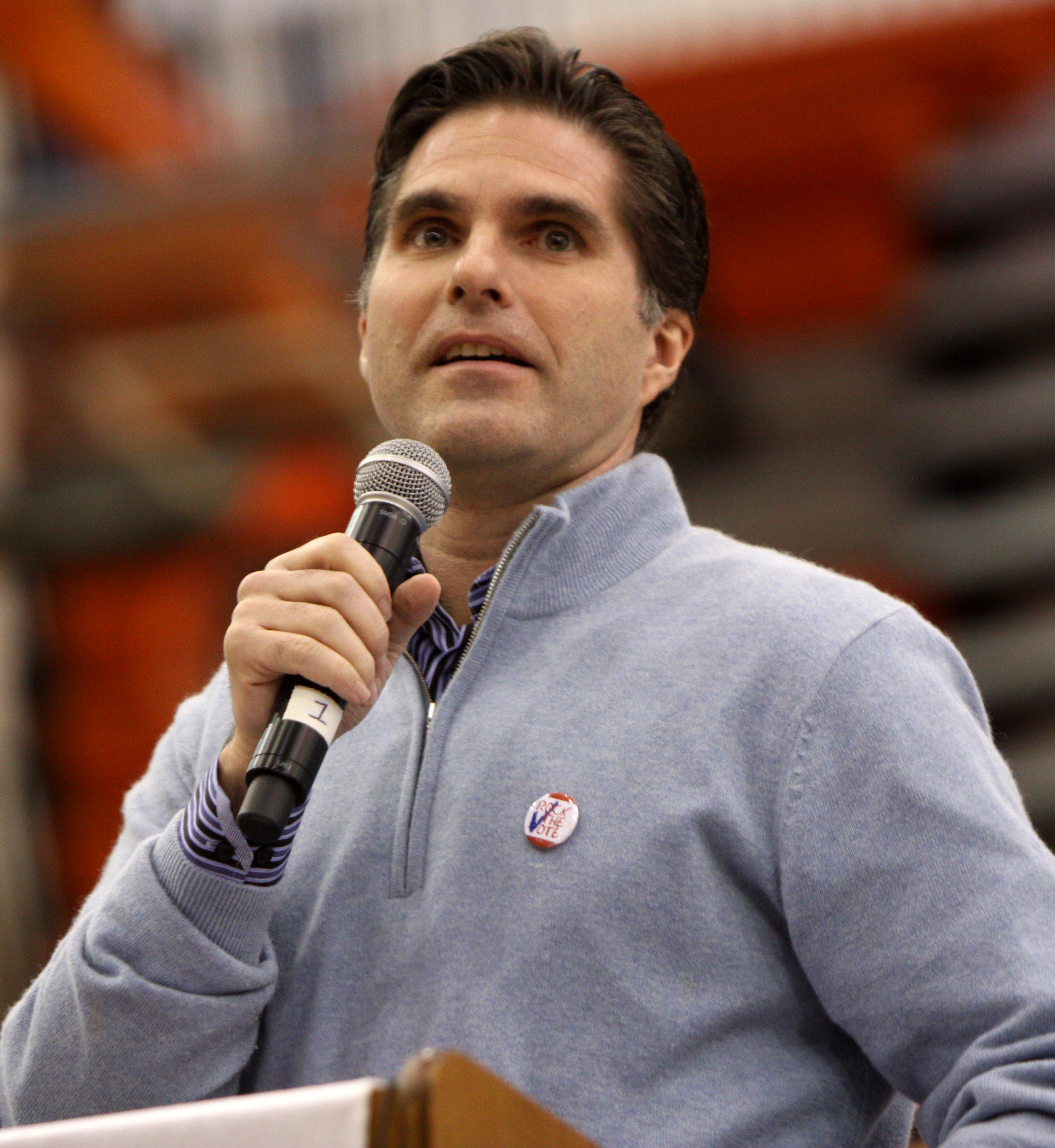 Tagg Romney speaking to students at Valley High School in West Des Moines, Iowa.